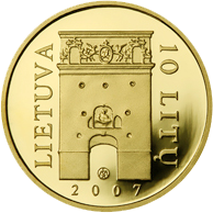 10 litas gold coin, issued as an item of the international programme "The Smallest Gold Coins of the World. History of Gold" Gold Au 999 Quality proof Diameter 13.92 mm Weight 1.244 g (1/25 oz) Edge reeded The designer of the coin are Liudas Parulskis and Rytas Jonas Belevicius Maximum mintaged 15,000 pcs Issued 2007 The coin was minted at the UAB Lithuanian Mint